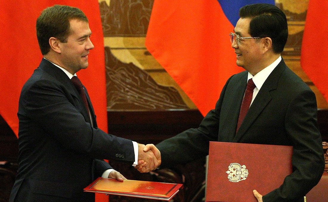 With President of China Hu Jintao after signing joint documents.